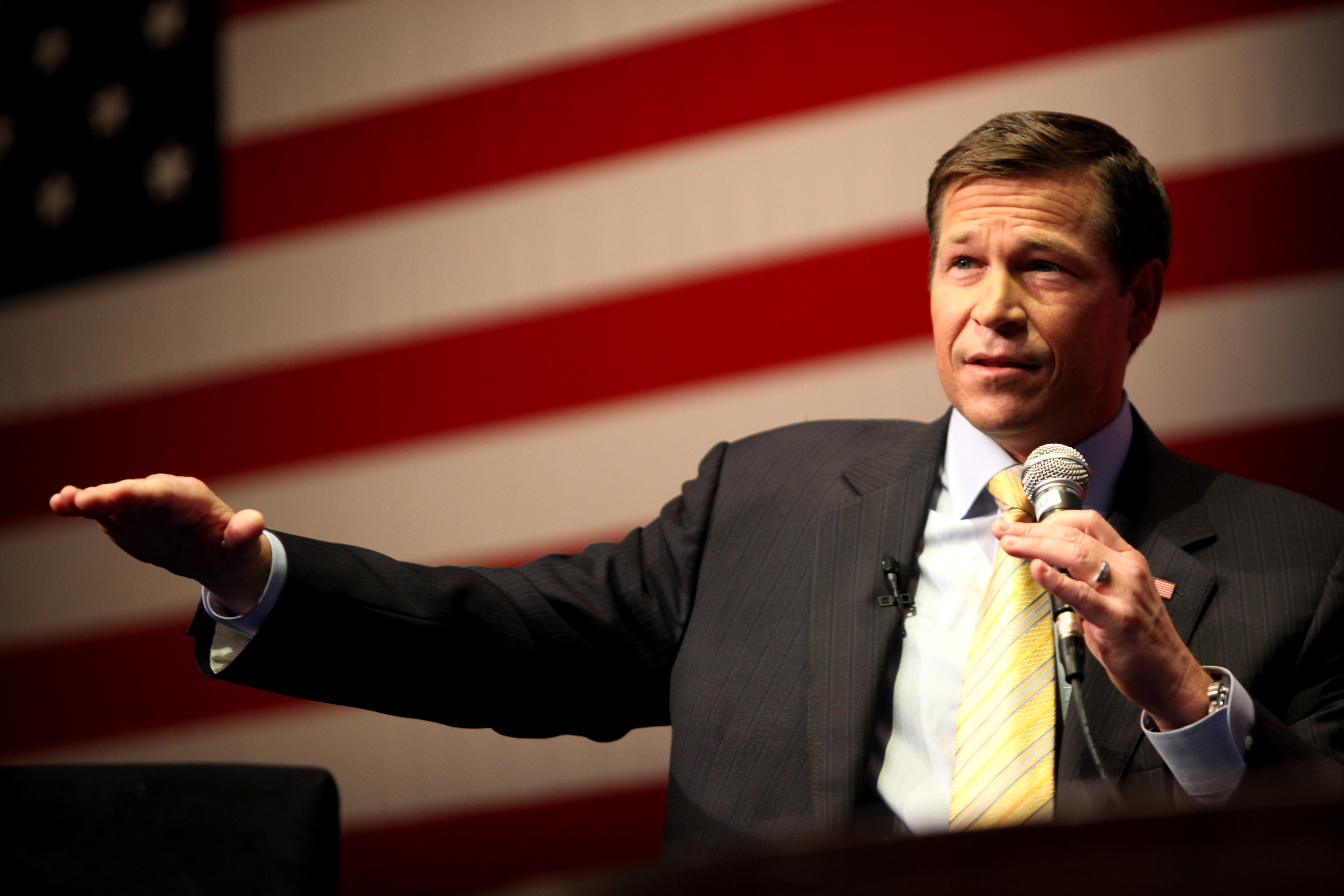 Connie Mack IV speaking at CPAC in Washington D.C. on February 11, 2012.